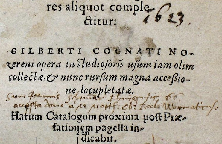 Widmung Matthias Ob (Speyerer Weihbischof) in einem Buch der Universität Freiburg/Breisgau, um 1560